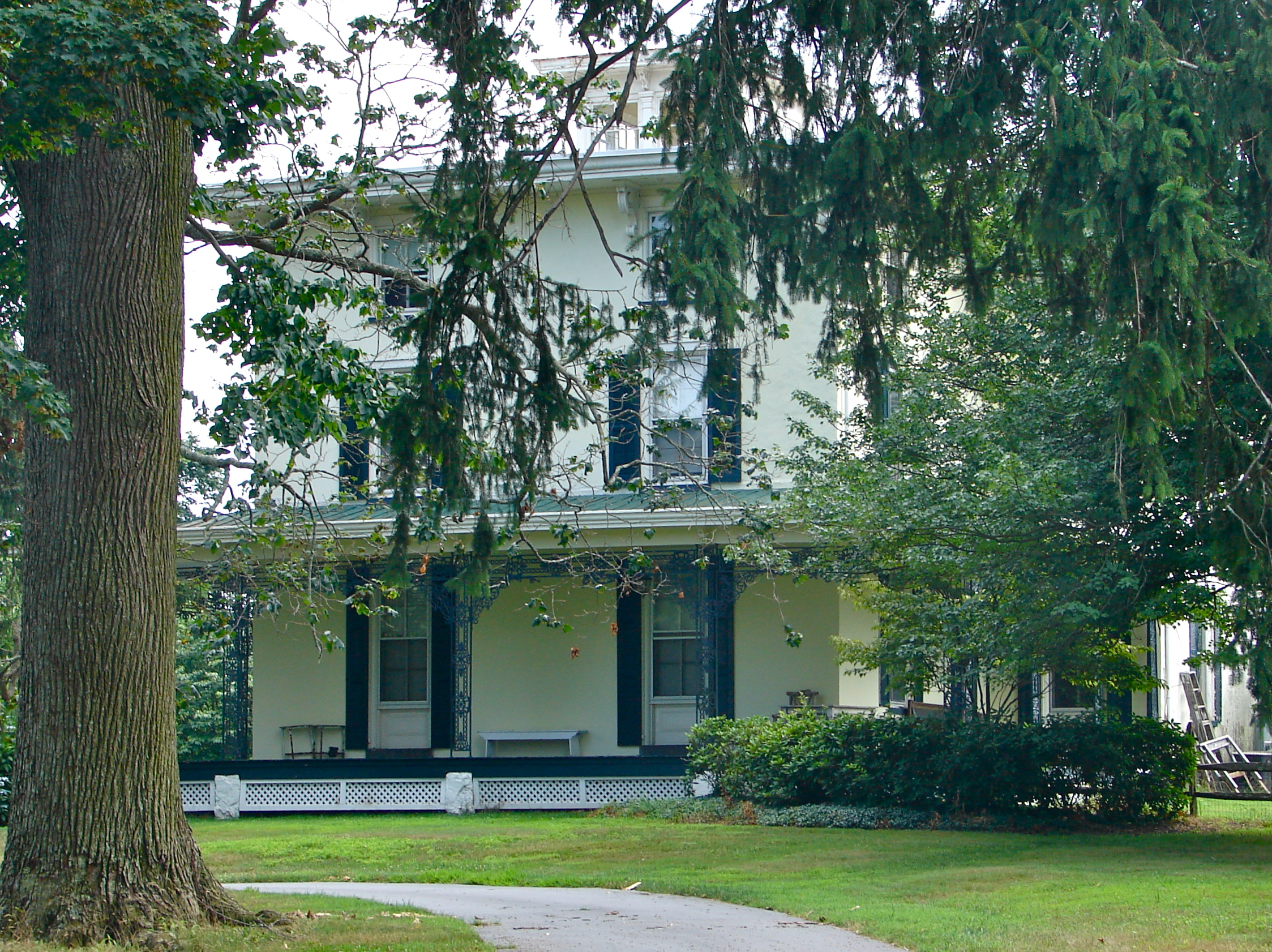 Carpenter-Lippincott House, on the NRHP since April 13, 1983. At 5620 Kennett Pike, Centreville, Delaware